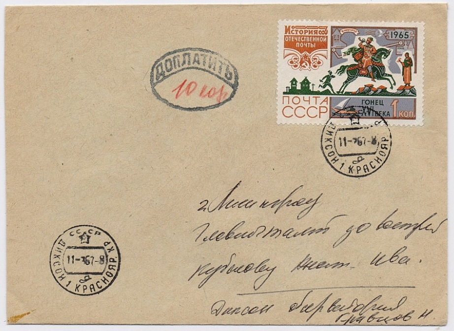 USSR 1967-03-11 cover sent from Dikson (Arctic base) to Leningrad, postage due 10kop red crayon in grey oval 'DOPLATIT' handstamp. Franked with 1965 Russia postal history 1 kop stamp. Catalogue: Mi. 3123, Sc. 3098, CPA 3260.